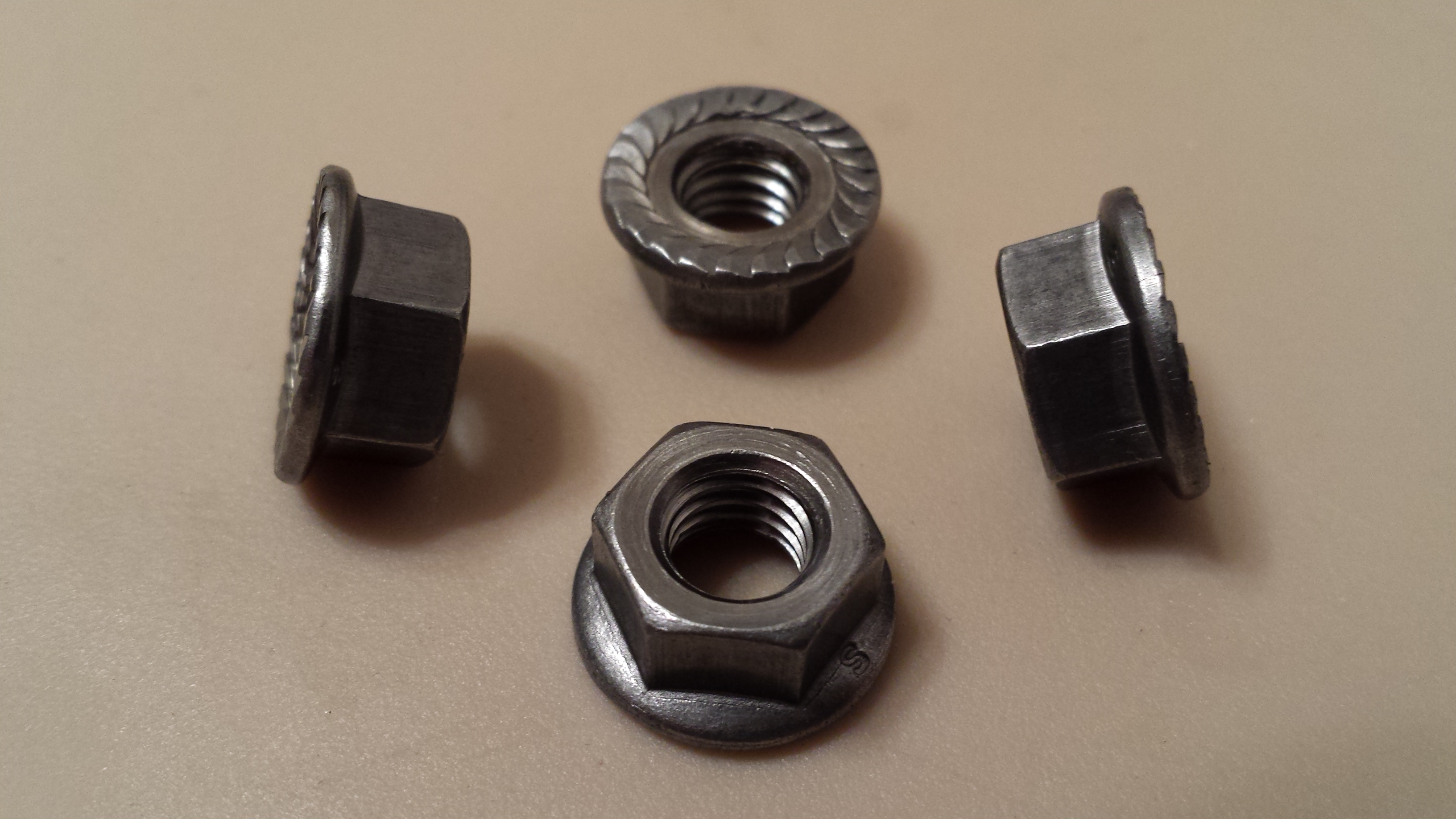 This is a multi angle shot of serrated hex flange nuts This specific nut has a 13mm hex top with 8mm center and 1.25mm threads